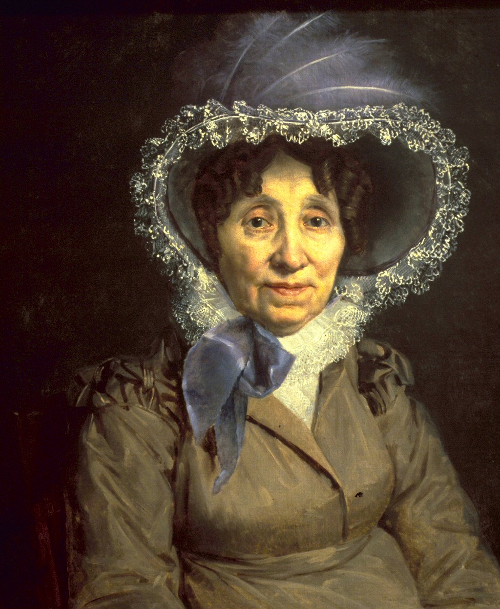 This starkly realistic portrait shows a strong-featured old woman dressed in her finery staring directly at the viewer. In its candor, the painting bears a striking resemblance to a celebrated family portrait, "The Three Women of Ghent" (now in the Louvre Museum, Paris) that was traditionally attributed to David who lived in exile in Brussels after his exile from France following the fall of Napoleon.